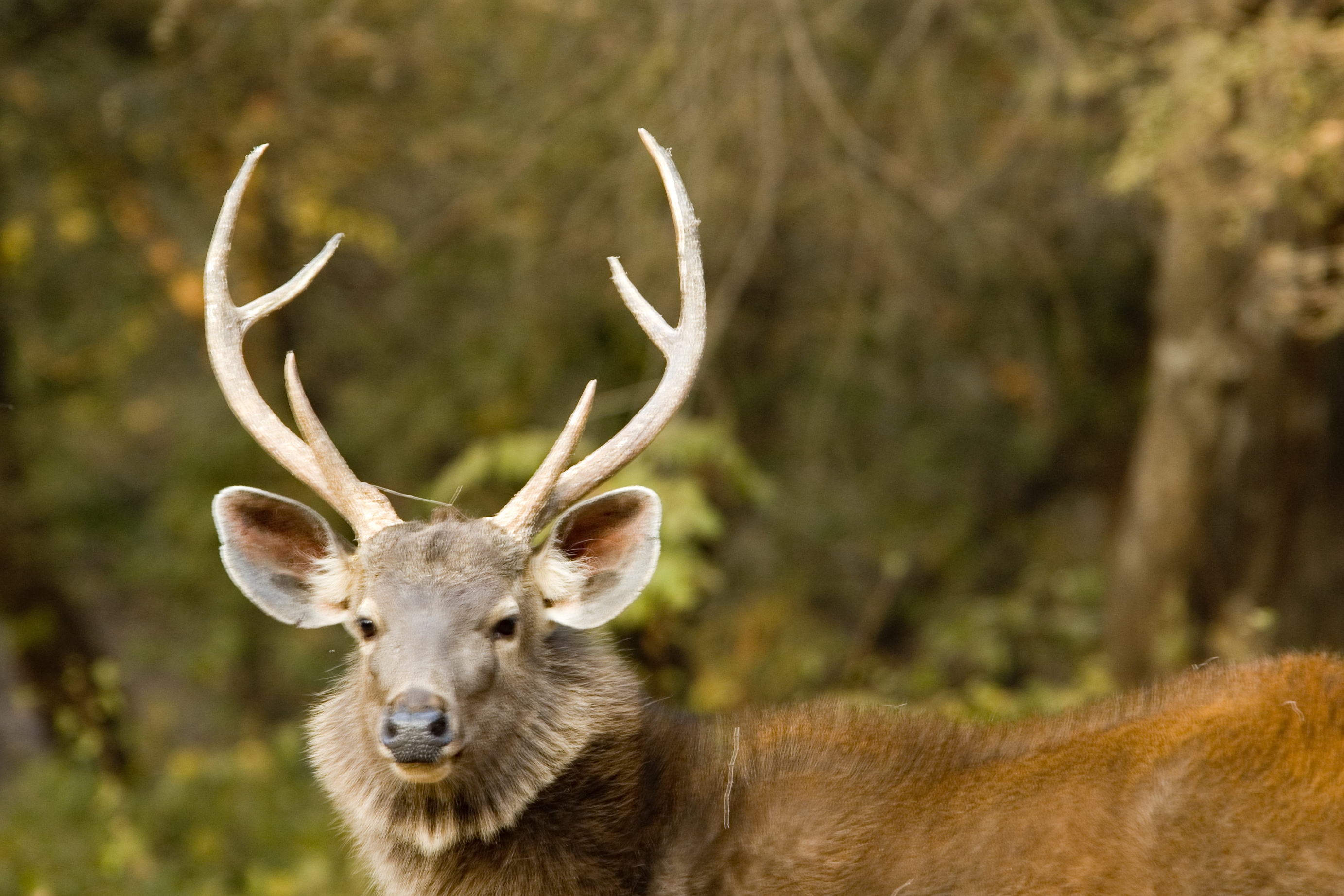 male, on alert in presence of tiger